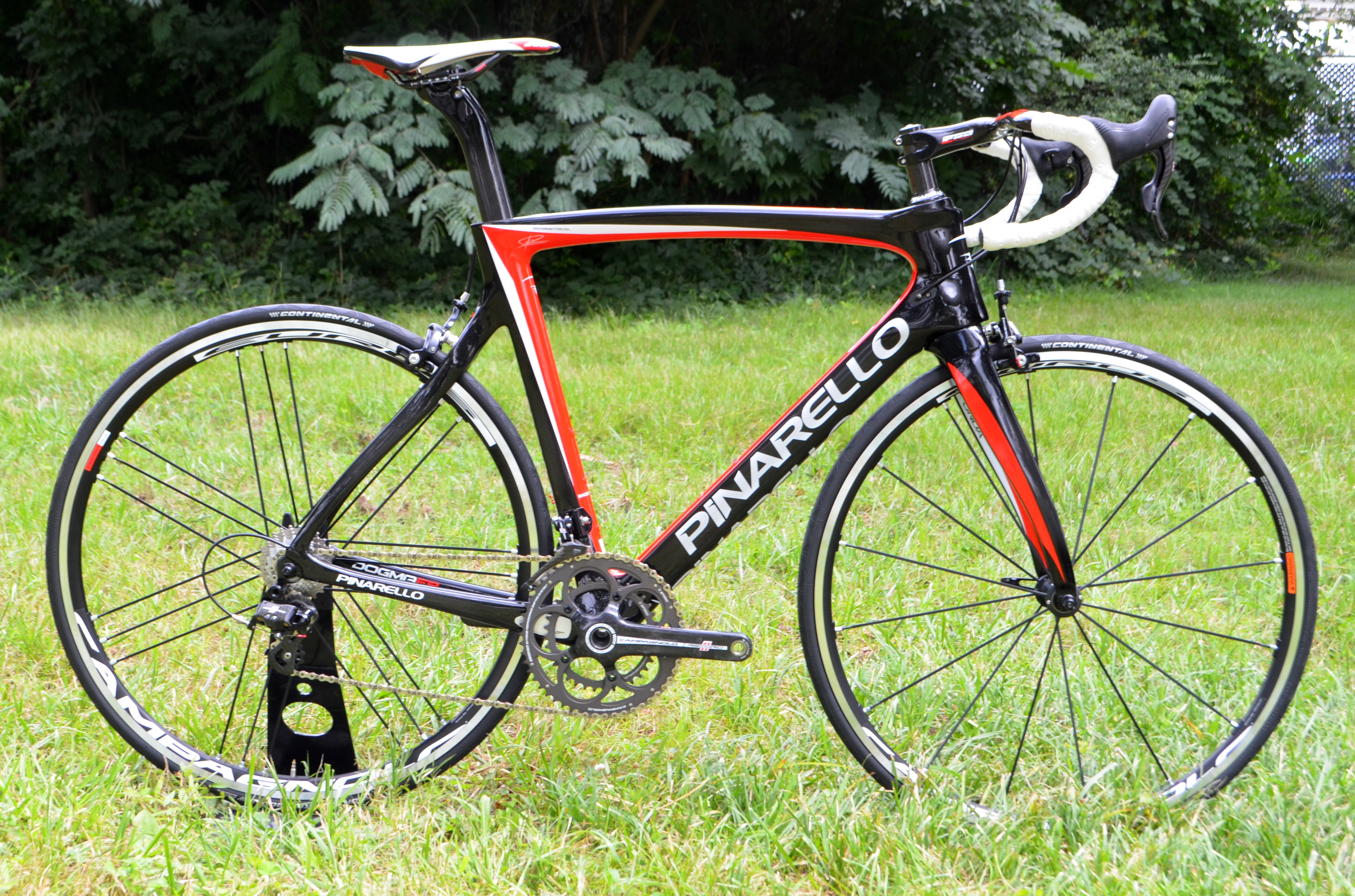 Pinarello Dogma F8 952 Black Red Gloss Record Build